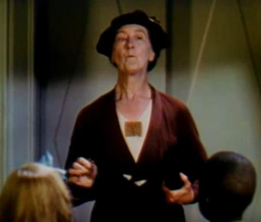 Nora Cecil in Nothing Sacred - cropped screenshot